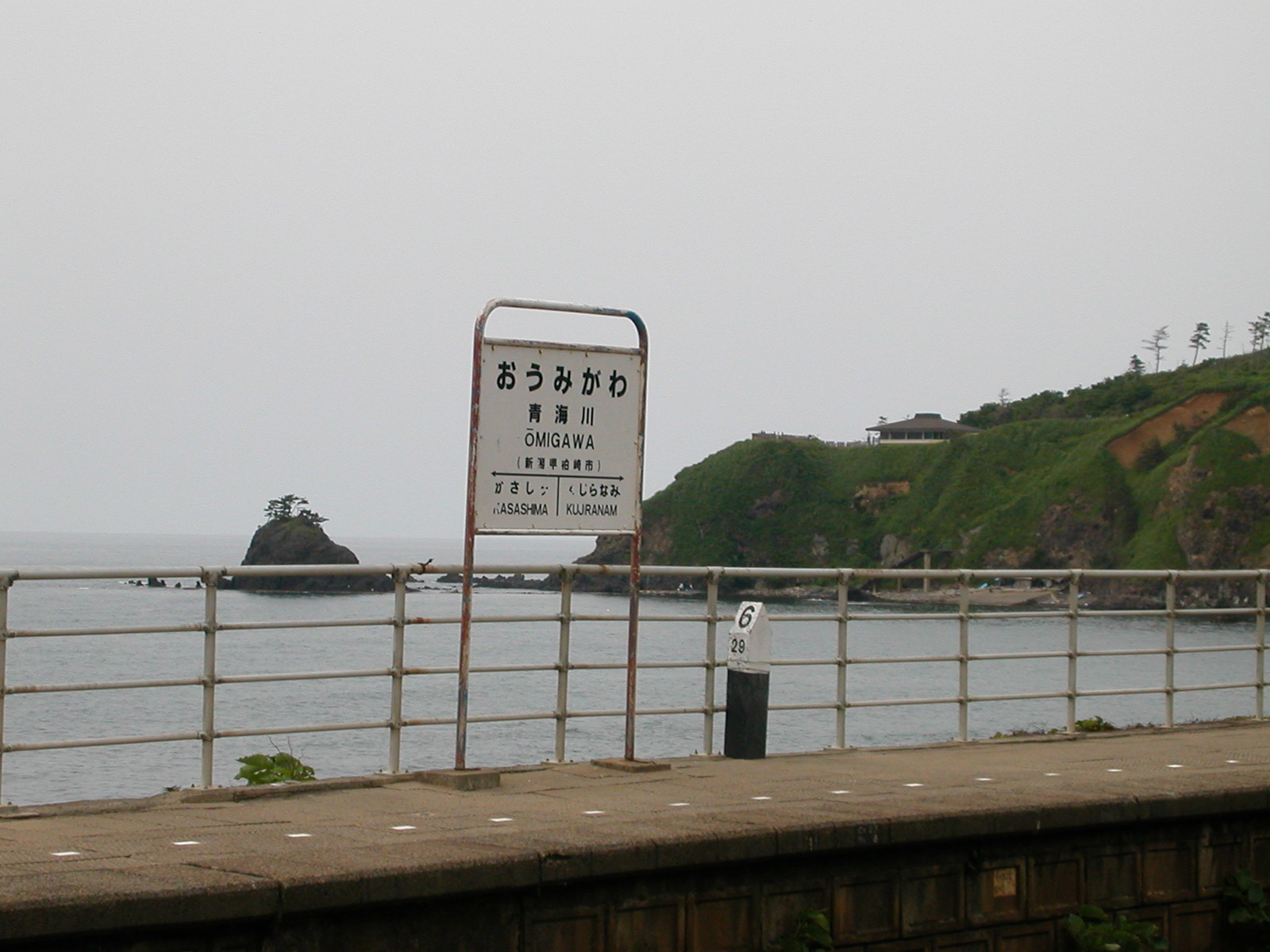 Oumigawa station and the background (2005)